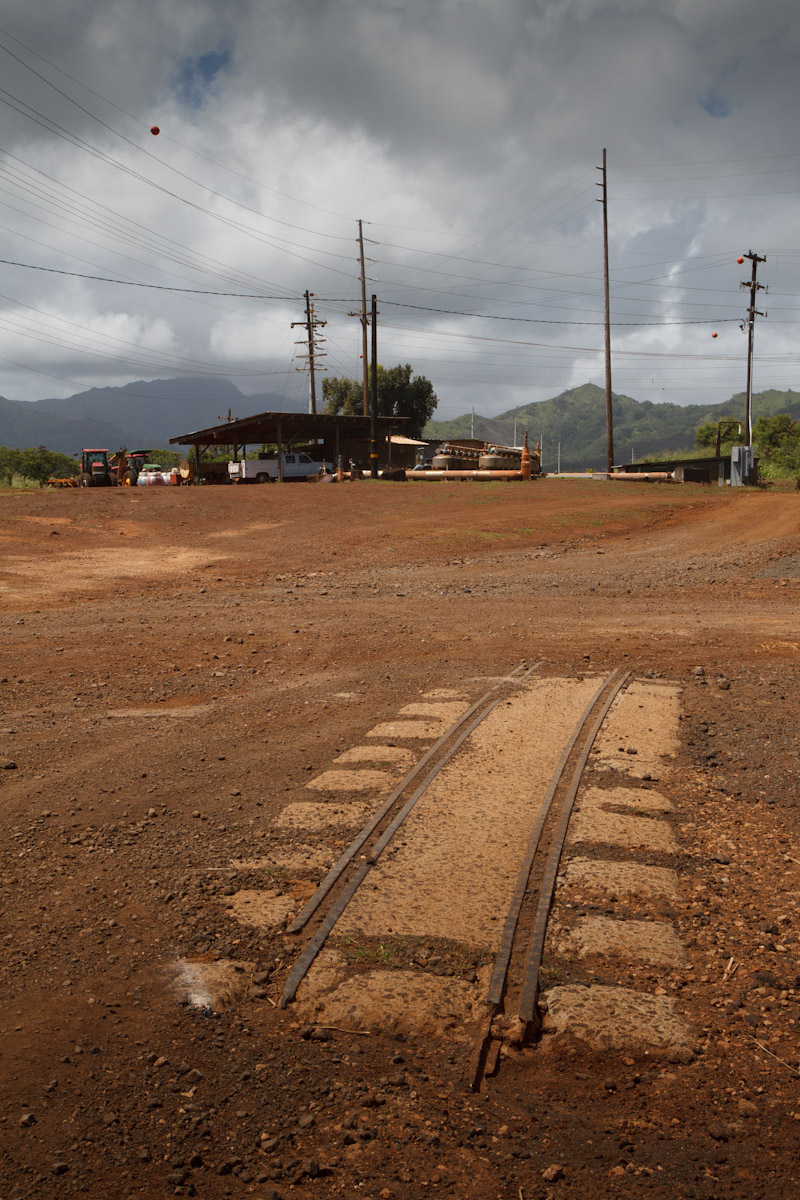 Relict of the Kauai Railway near the Koloa Mill